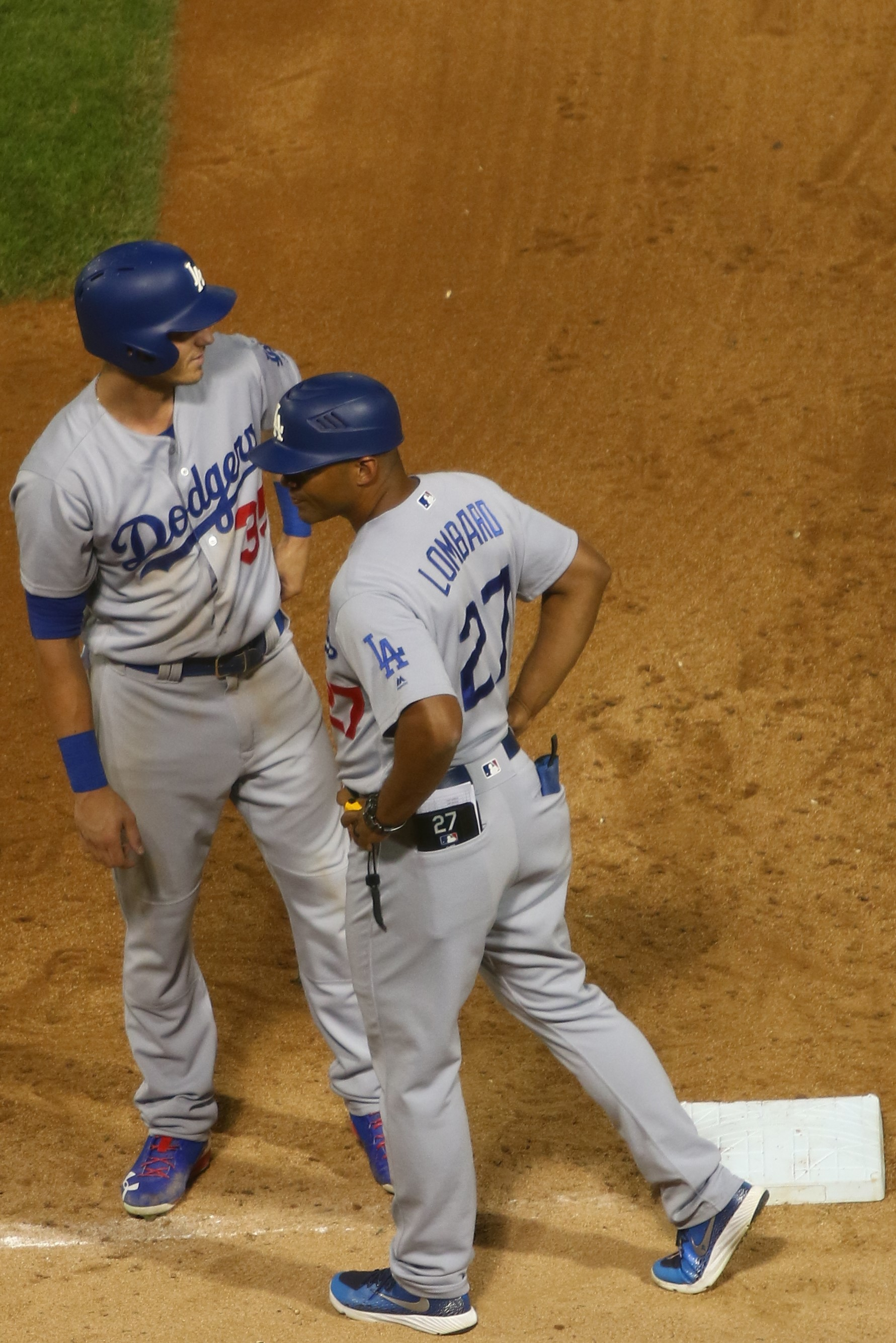 Cody Bellinger with first base coach George Lombard for the 2017 Los Angeles Dodgers